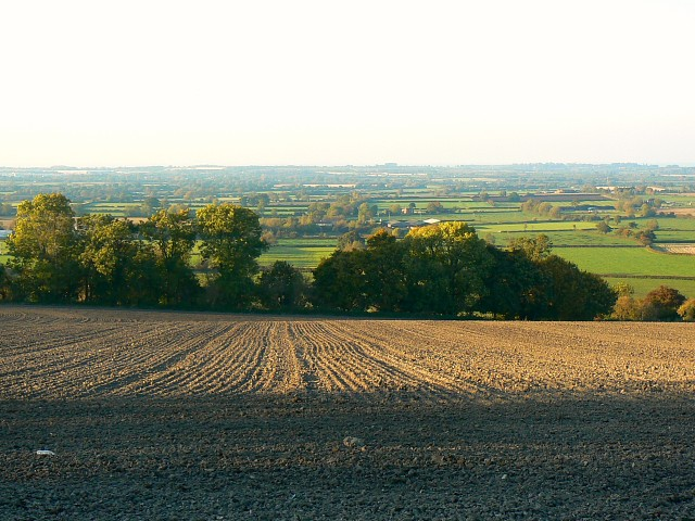 Looking north from Callas Hill to Horpit, Swindon The view is toward the western extremity of the Thames Valley in the far distance. Horpit is visible above the trees in the centre.